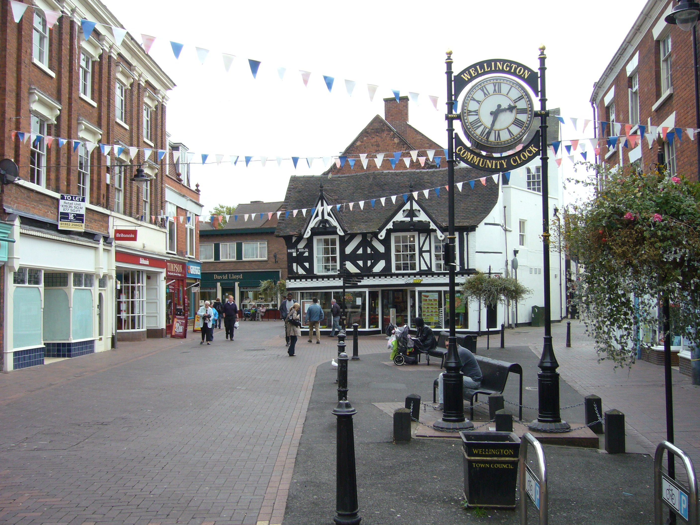 Pedestrianised zone in the centre of Wellington, Shropshire.